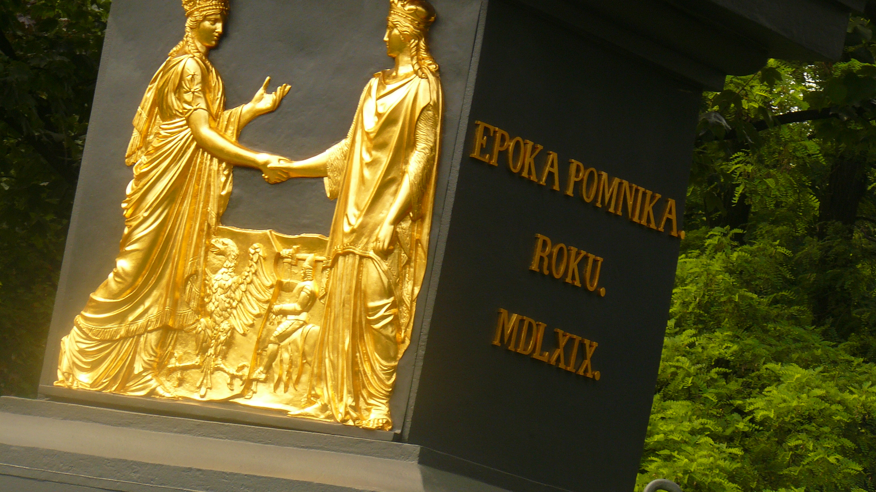 Lublin Union